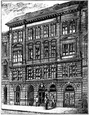 Václav Frič's shop at Wassergasse 736-II in Prague (illustration from his catalog).